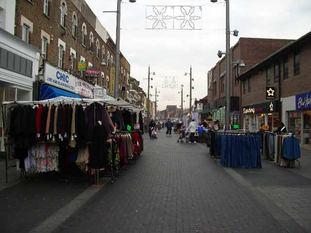 Walthamstow Market. High Street Walthamstow, repudedly the longest street market in Britain. Any challengers ?